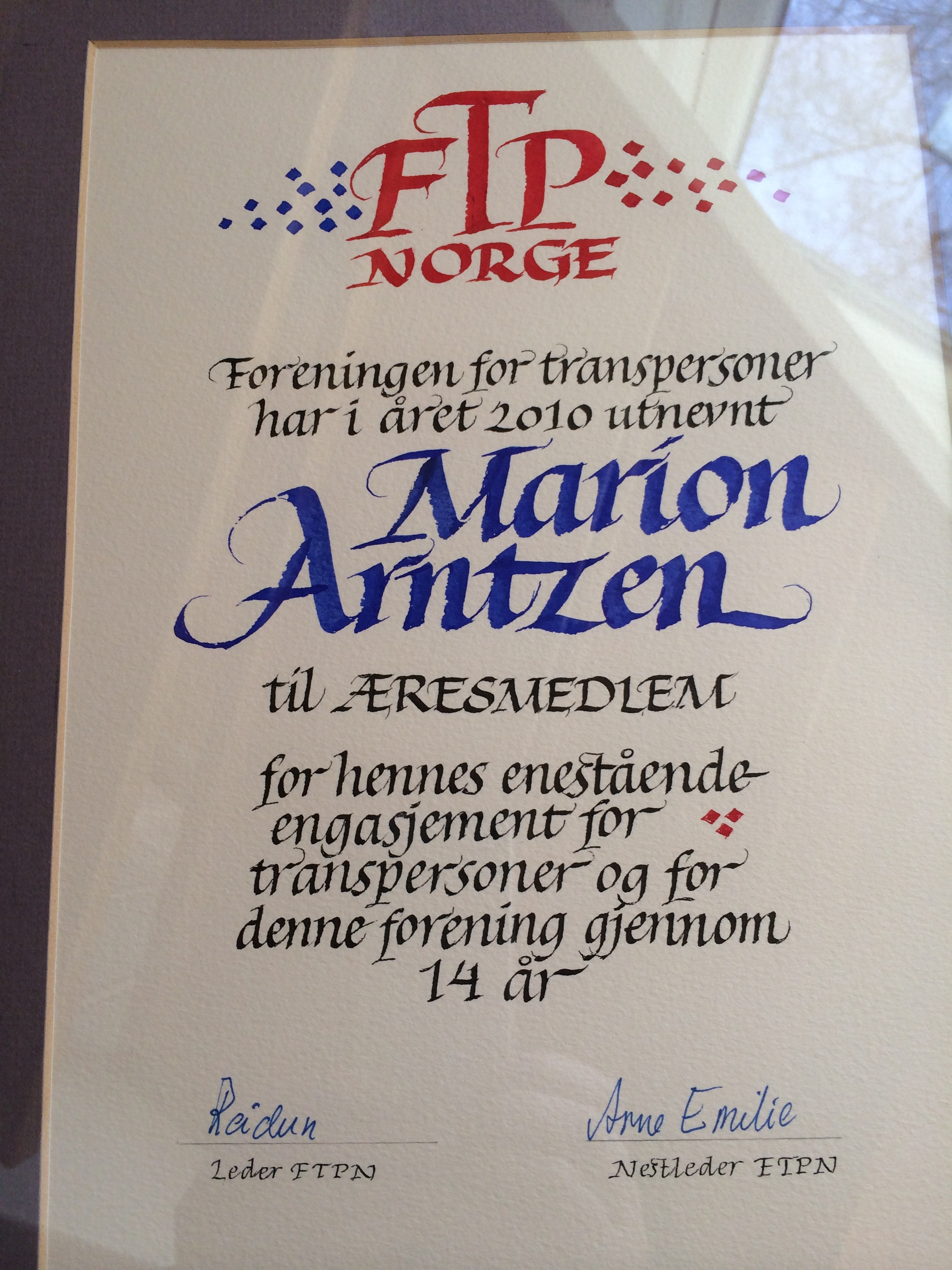 Membership of Honour - Marion Arntzen in FTPN